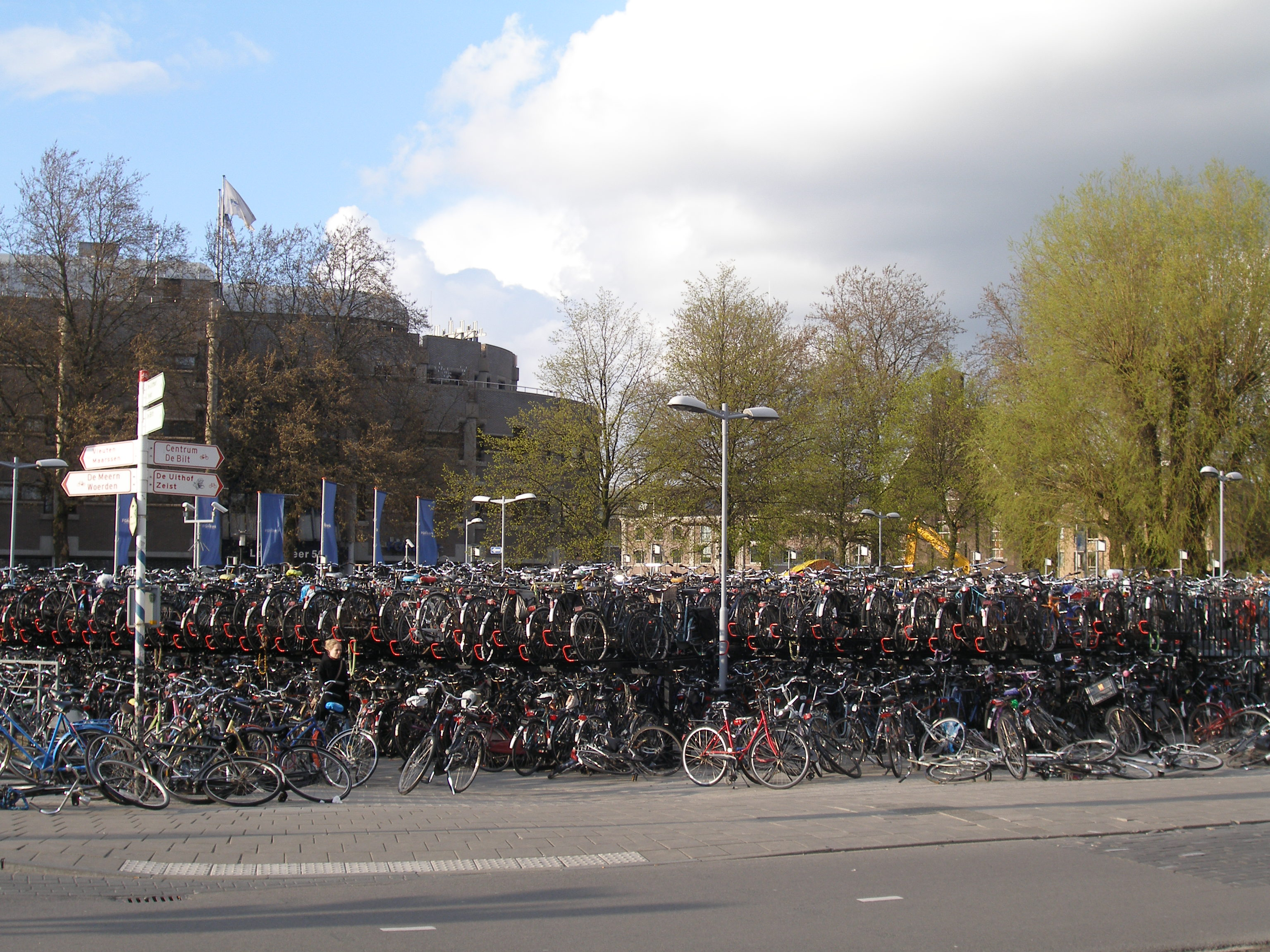 Bicycles at the Leidseveer in Utrecht